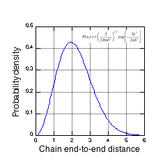 Probability density for an average network chain vs. end-to-end distance in units of mean crosslink node spacing.